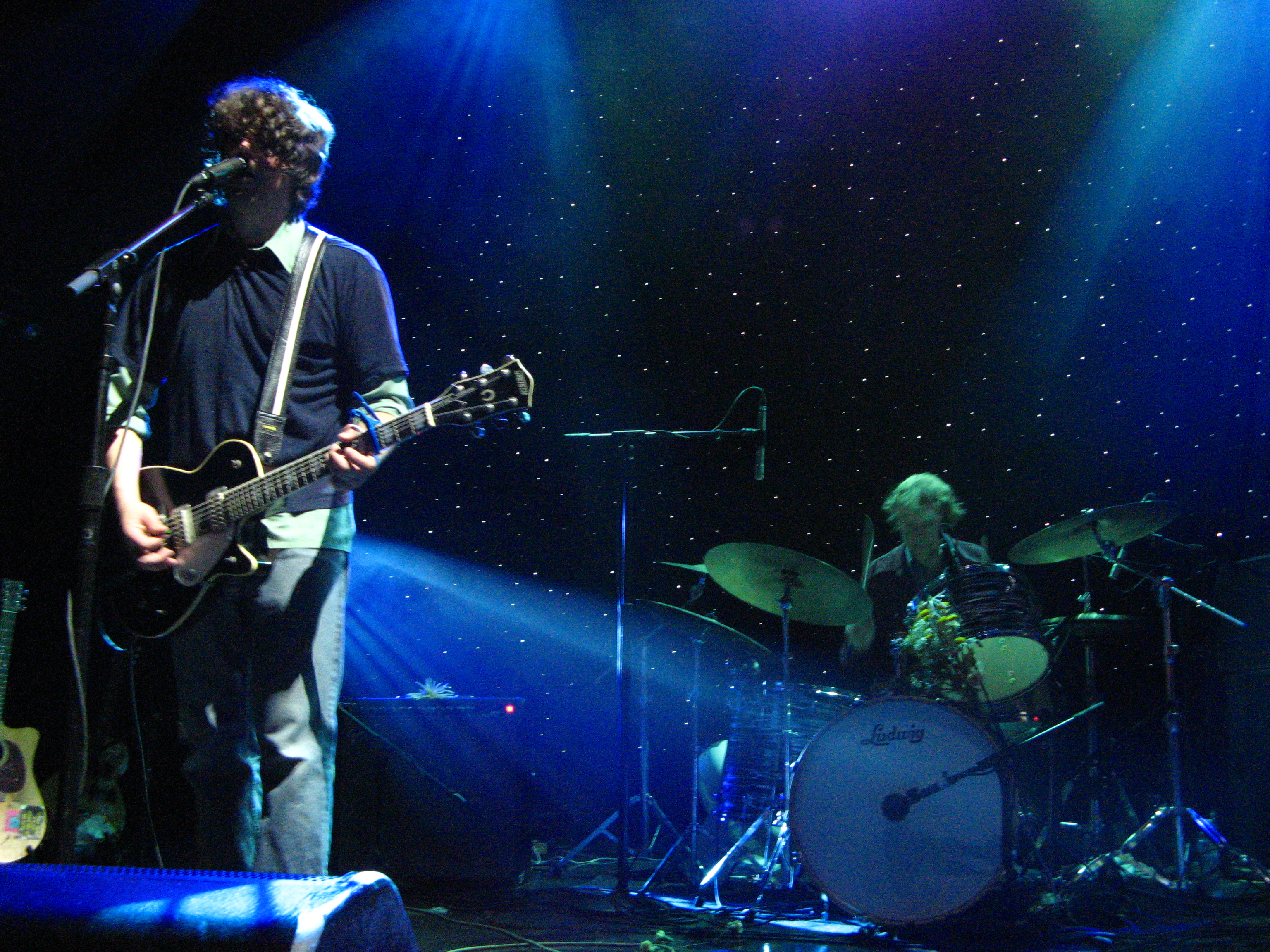 Lou Barlow and Eric Gaffney of Sebadoh at Webster Hall, 2007 tour. PD-self